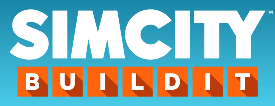 SimCity: BuildIt logo